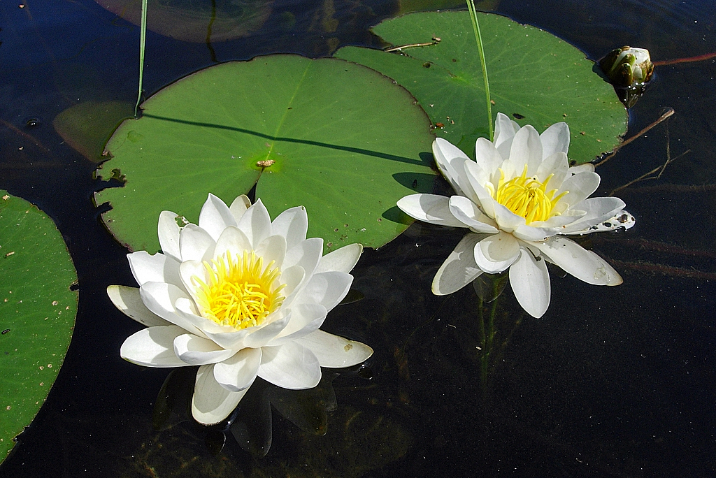 Waterlily in the Lake Meiko,Kirkkonummi Finland year 2006.